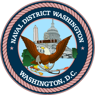 Naval District Washington DC